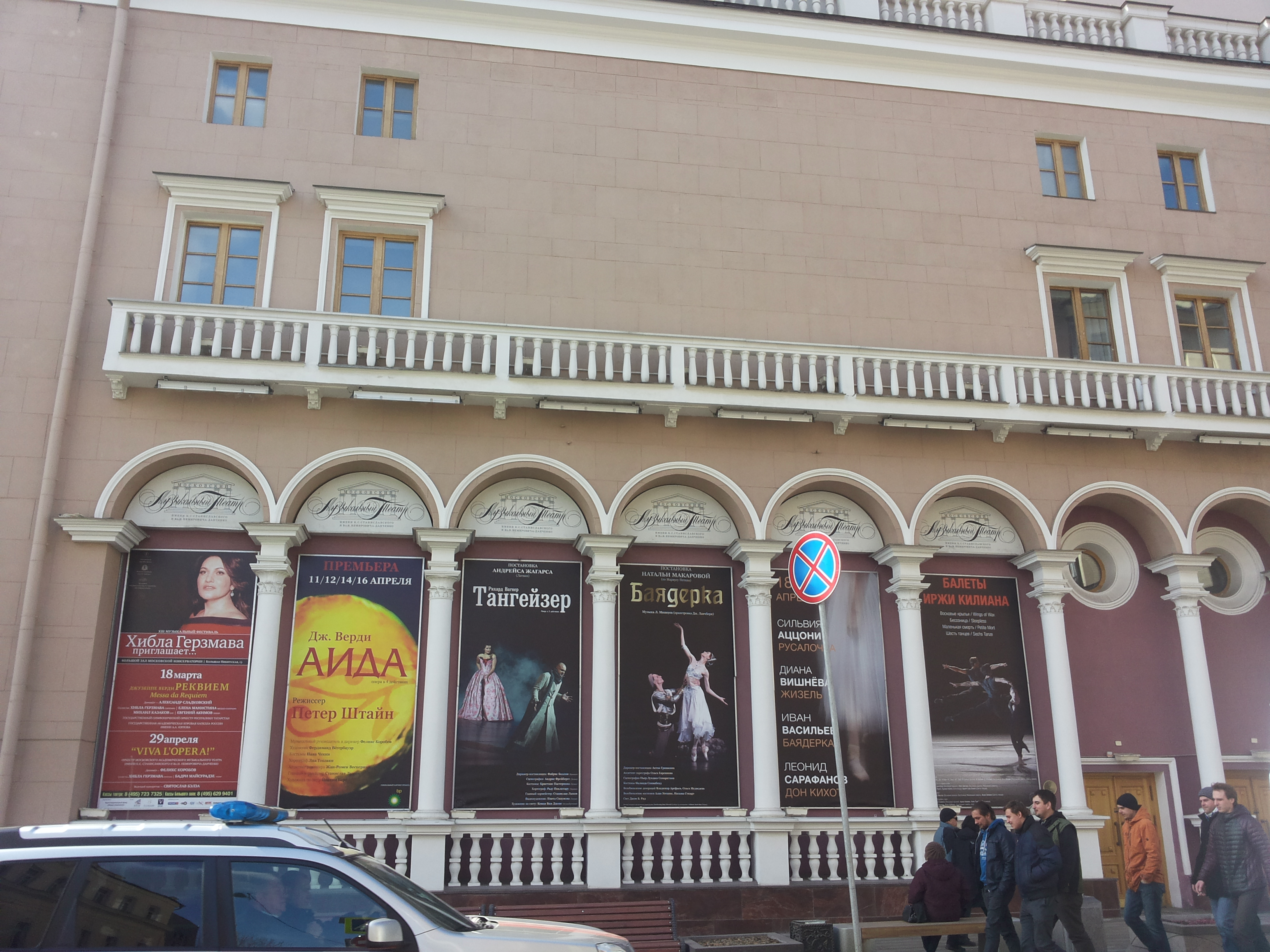 A picture of the Stanislavski and Nemirovich-Danchenko Moscow Academic Music Theatre in Moscow.